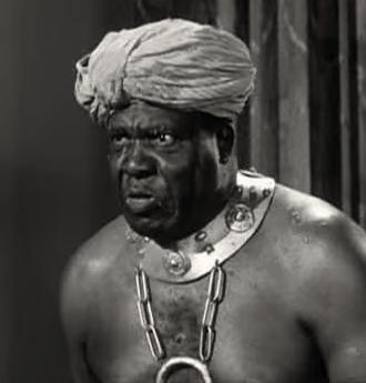 Everett Brown in Malice in the Palace - cropped screenshot